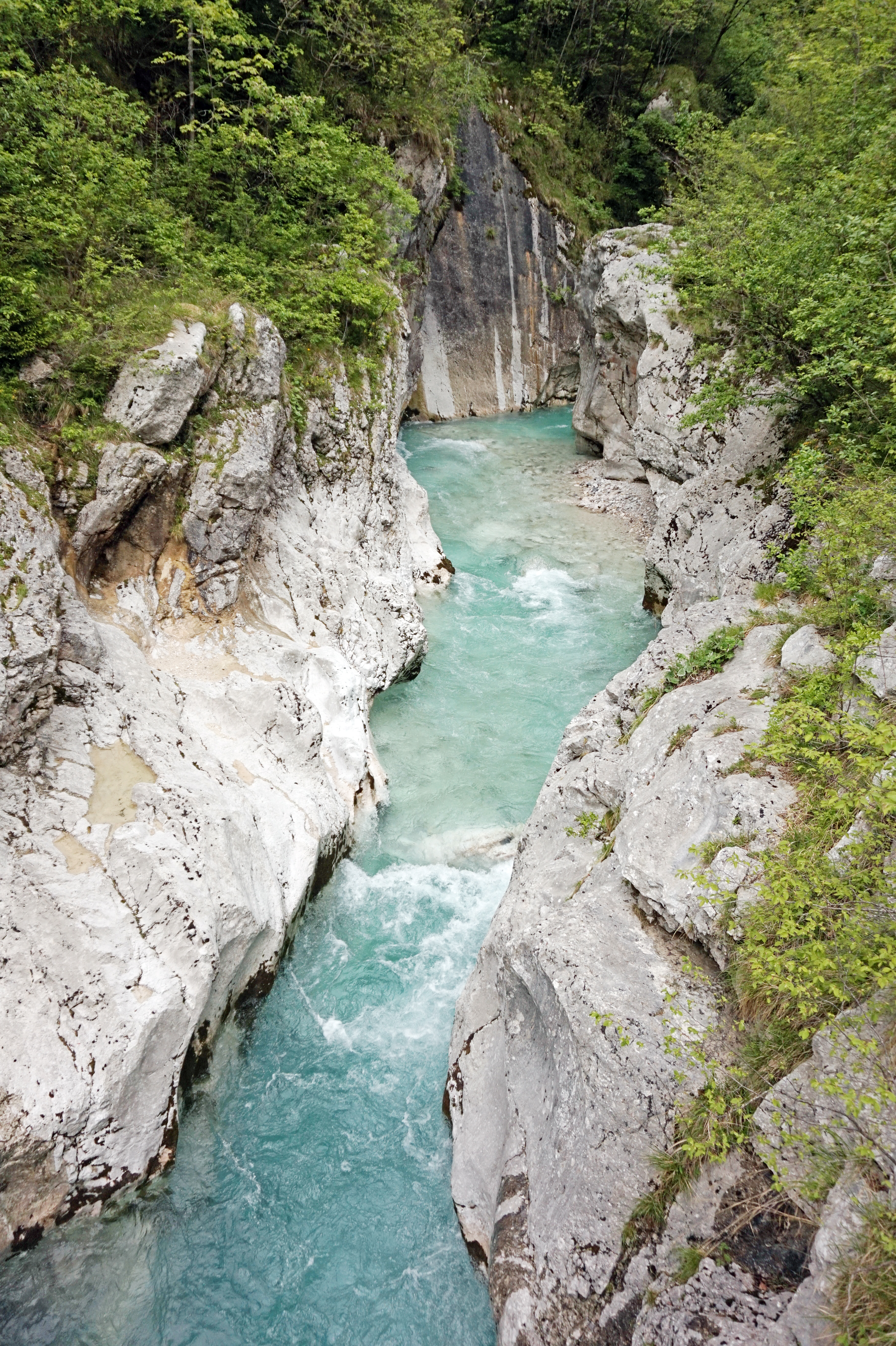 Koritnica river, Slovenia. This photograph was taken with a Sony Alpha a5000.